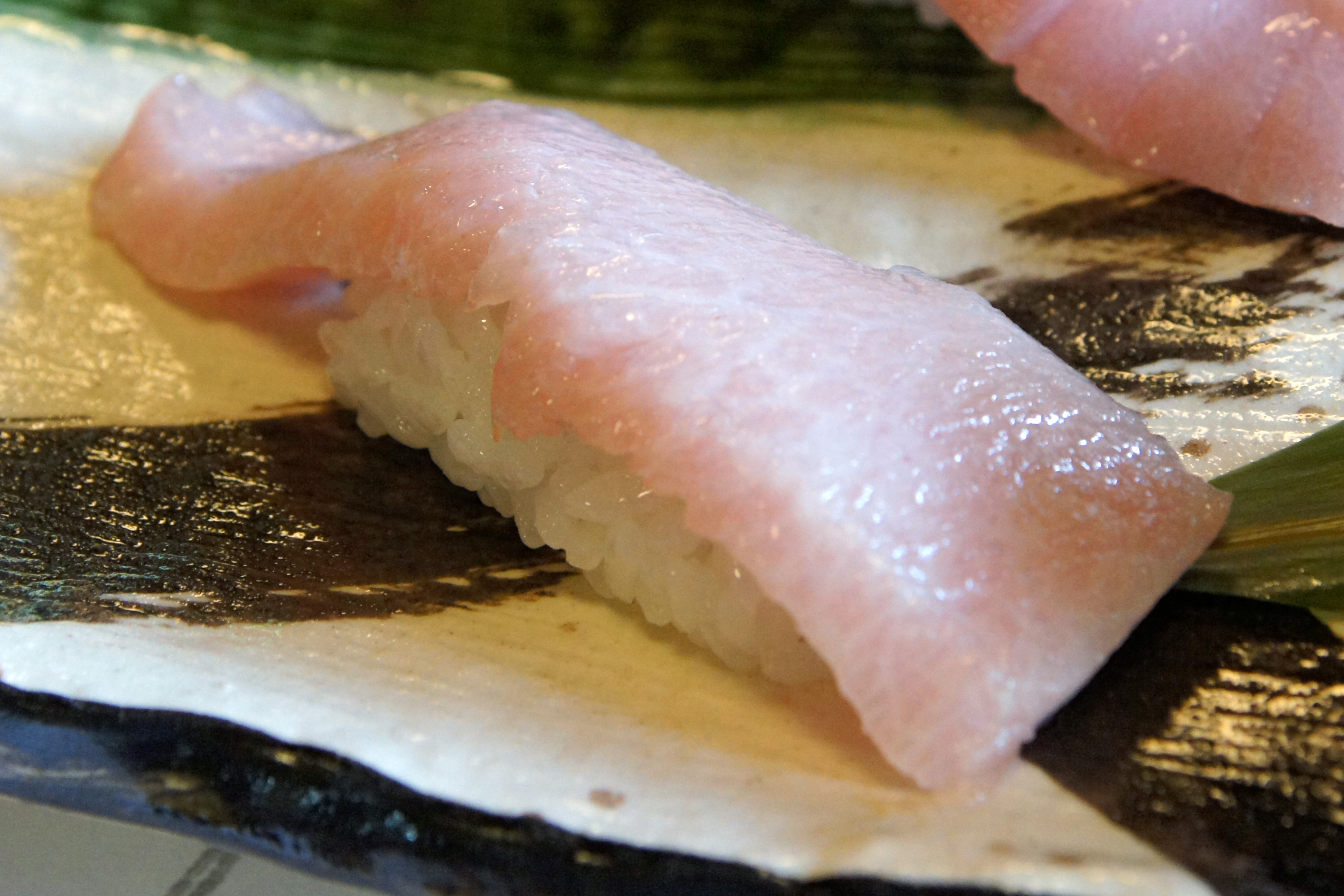 Rokusanen in Wakayama, Wakayama prefecture, Japan